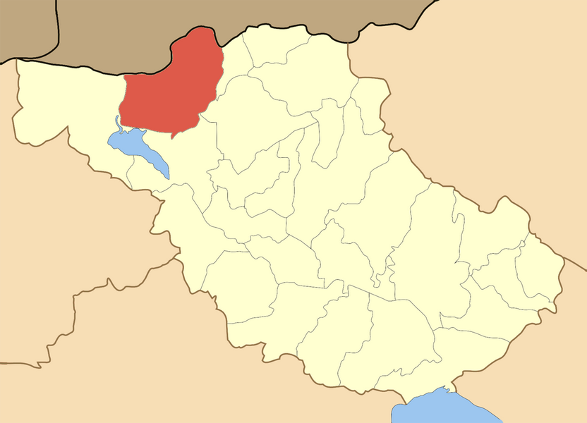 Locator map of Petritsi municipality in Serres perfecture in Greece.